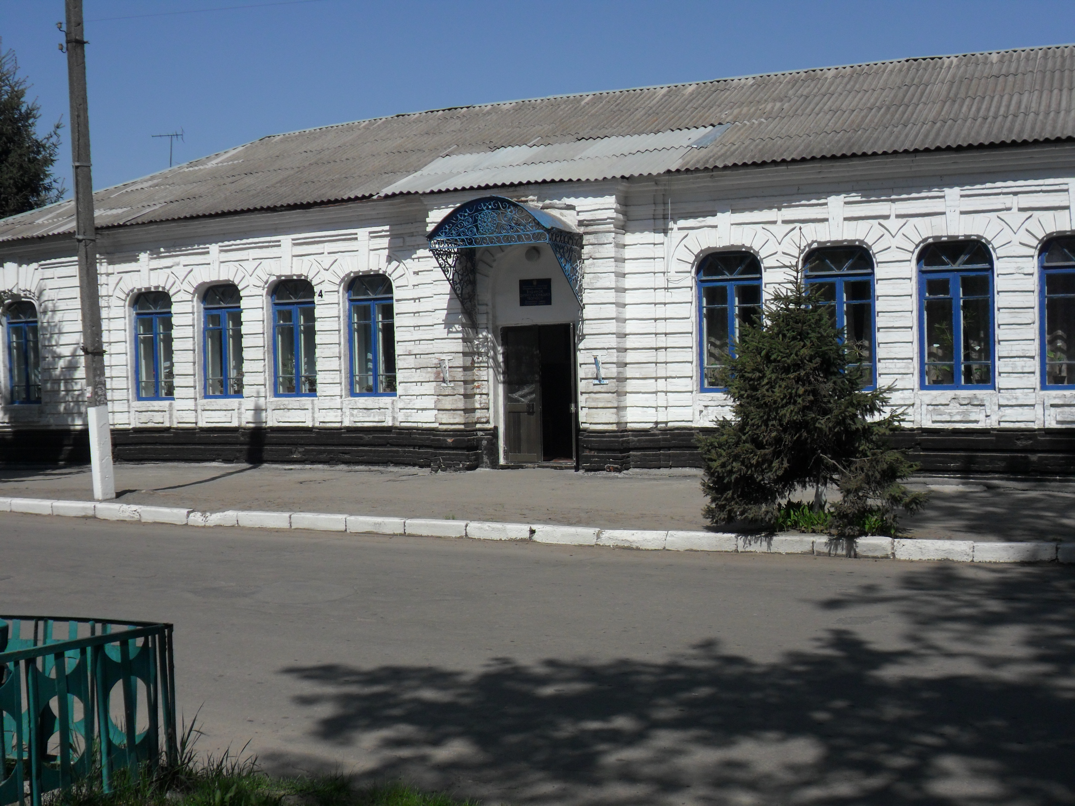 House of children and teenagers creativity, Opishnya, Poltava Oblast